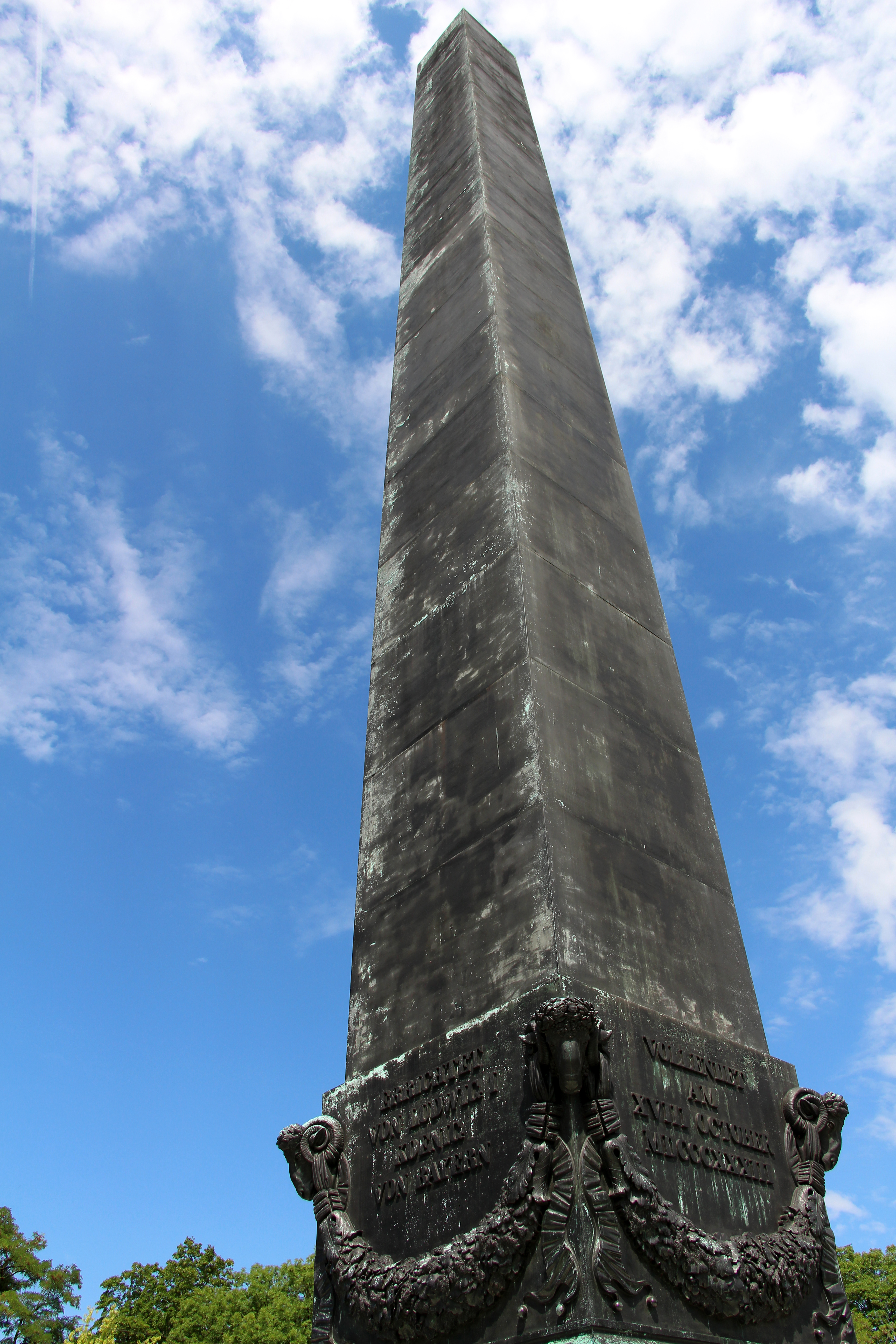 Karolinenplatz The obelisk on Karolinenplatz in Munich is a monument erected as a memorial for the soldiers of the Bavarian army who fell in Napoleon's Russian campaign. Arch. Leo von Klenze 1833